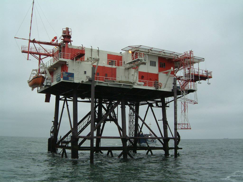 The REM Island off the Dutch coast.